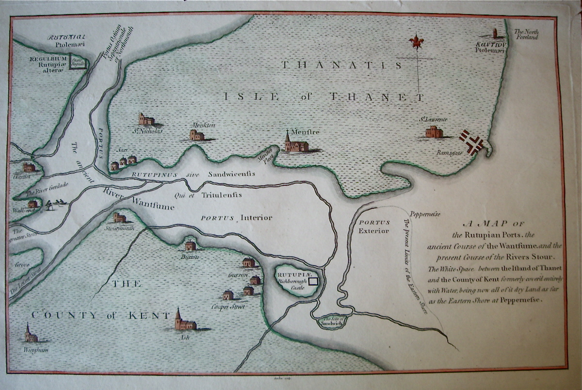 Roman coastline of Kent and Thanet